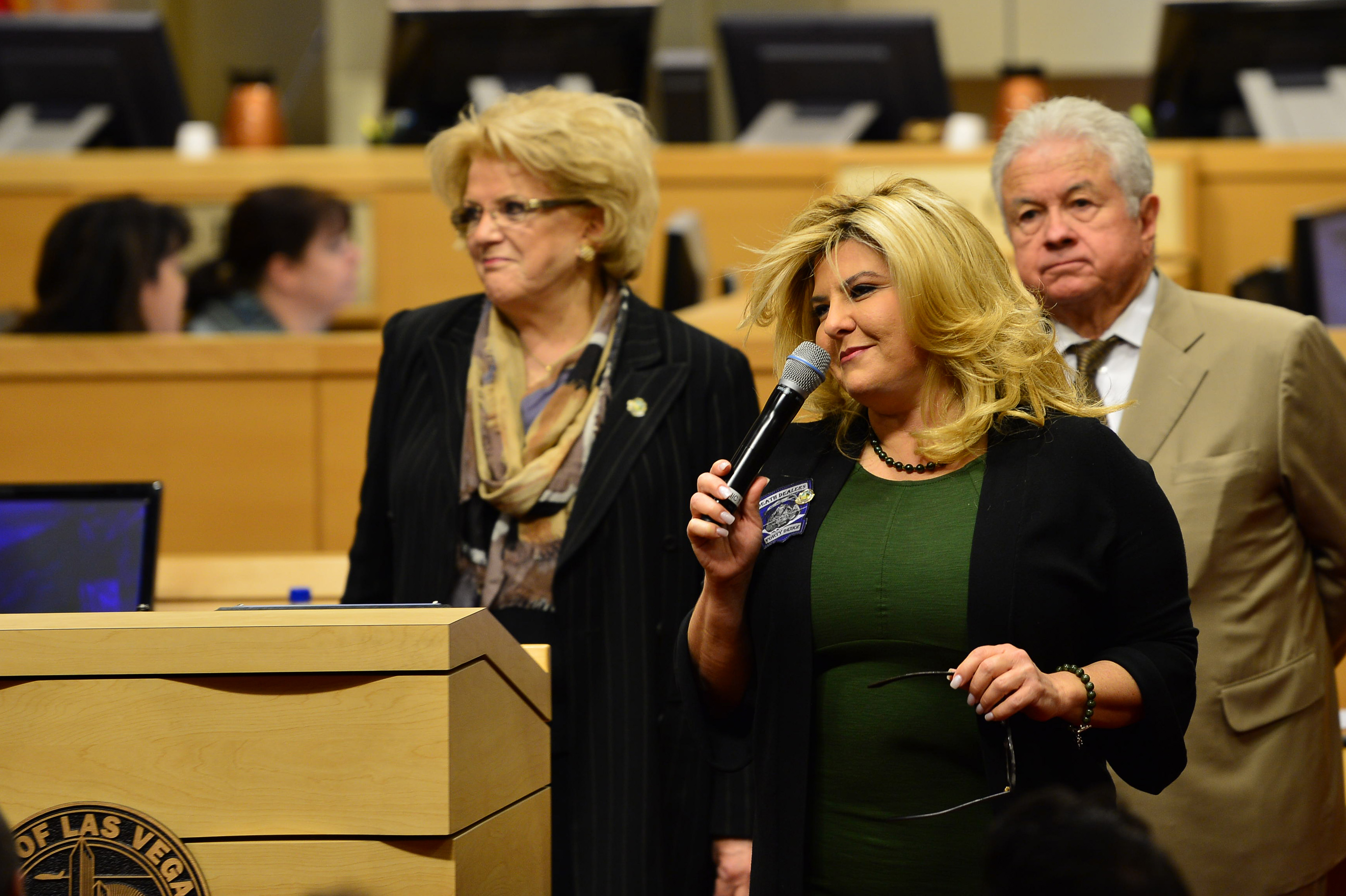 Michele Fiore, Las Vegas city councilwoman, thanks the men and women of Creech Air Force Base for their service and sacrifice at the Las Vegas City Hall, April 4, 2018. In 2017 alone, Creech Airmen assisted 70 nations in liberating multiple cities and freeing more than 7.7 million people from ISIS control. (U.S. Air Force photo by Airman 1st Class Haley Stevens)